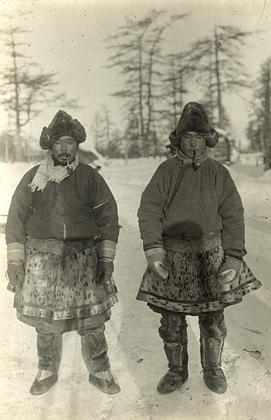 Nivkh hunters wearing traditional costumes - skii (shirt) and kosk (skirt). Sakhalin.